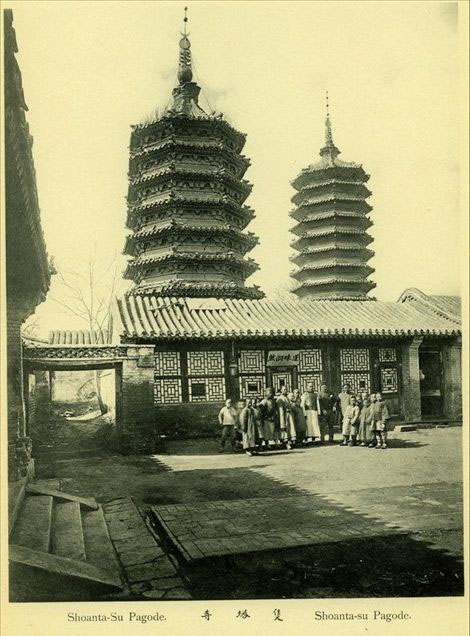 old photo from China 1900-1903, see the file's name for detail.